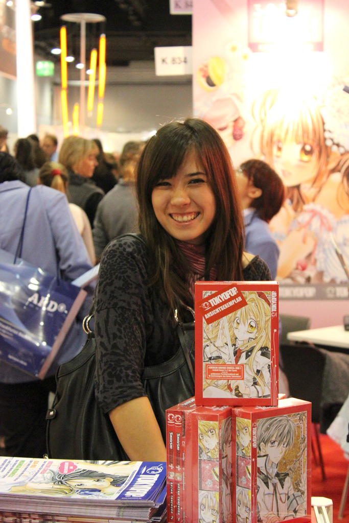 Mikiko Ponczeck at the Frankfurt Bookfair 2011